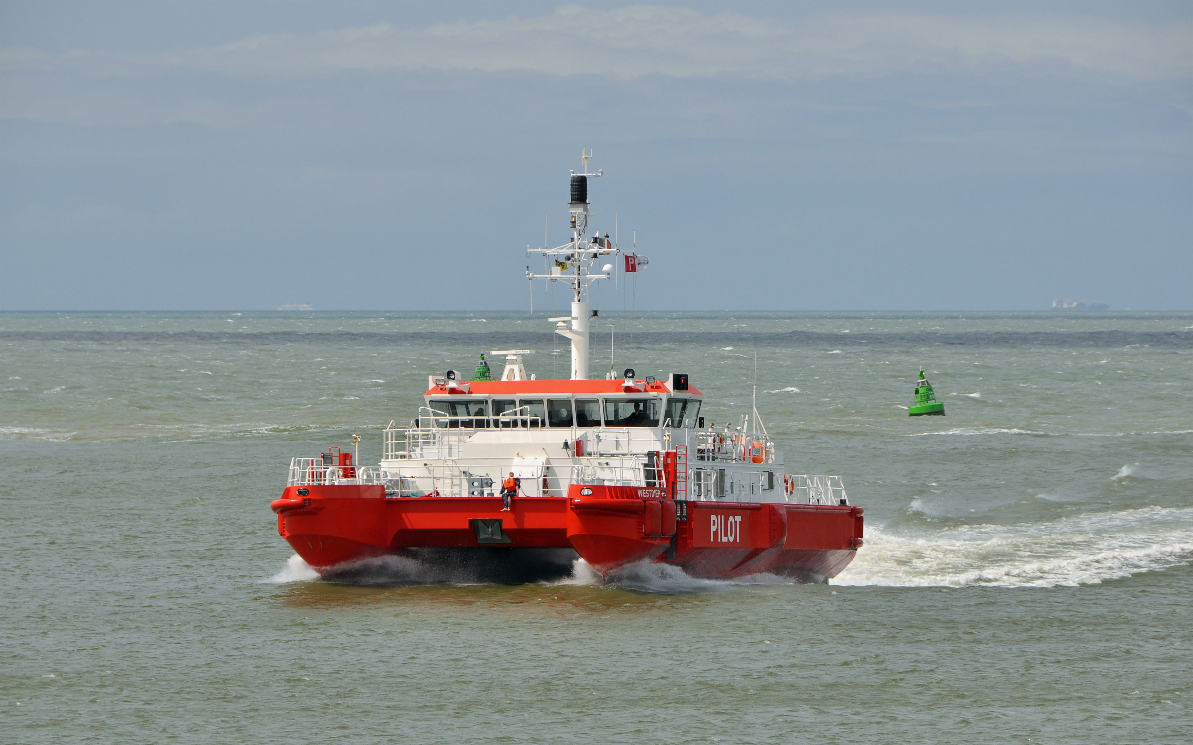 Belgian pilot boat Westdiep